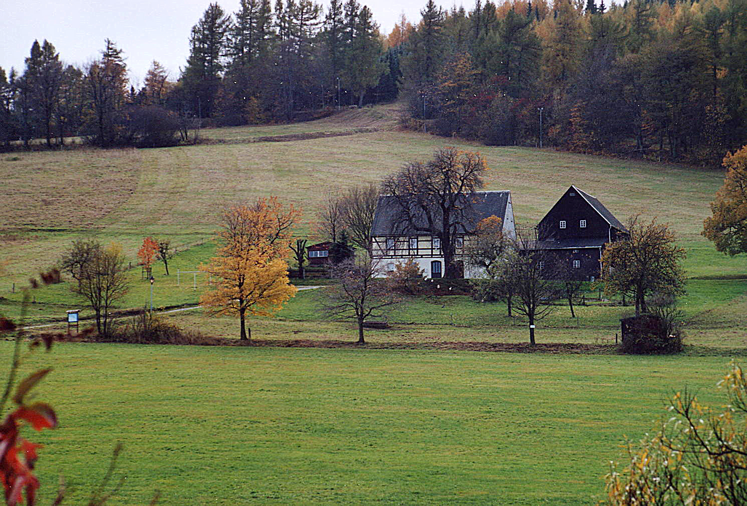 This image shows a characteristic miners or cottagers estate of the Ore Mountains. The image was photographed in Seiffen.